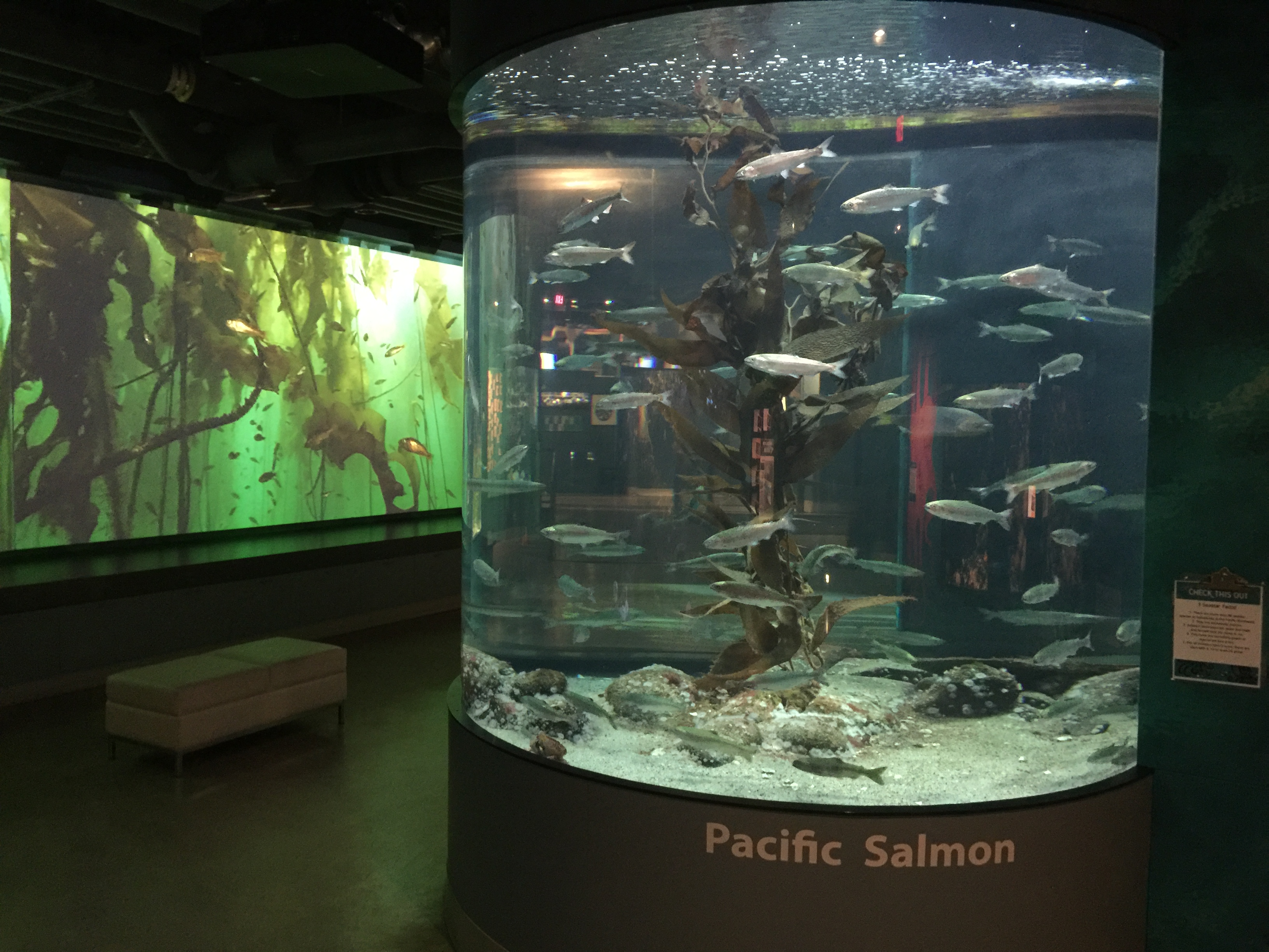 Shaw Centre for the Salish Sea - main aquarium gallery.